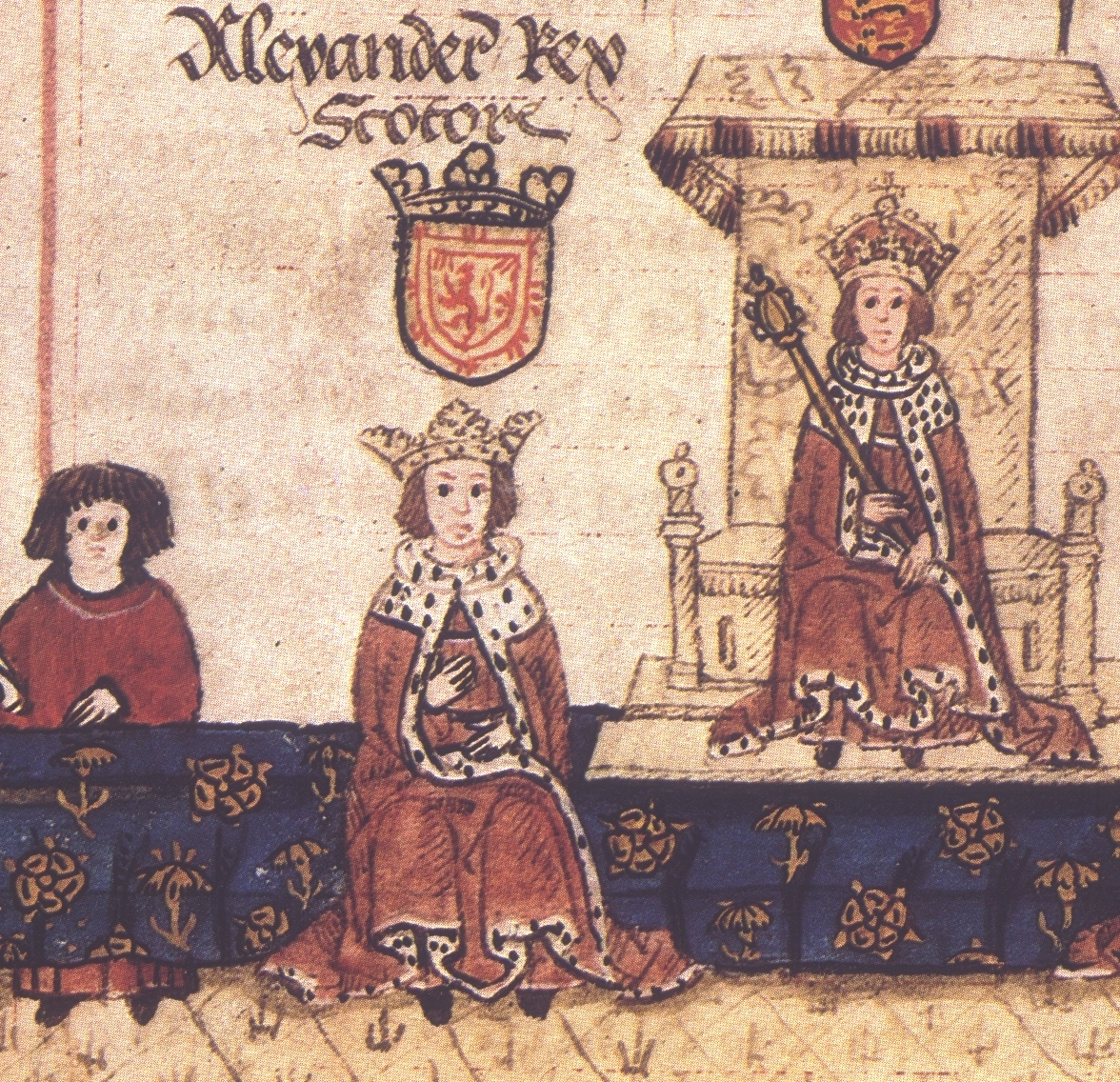 Alexander III, King of Scots, as a guest of Edward I of England at the sitting of an English parliament.